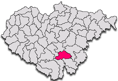 Map Salaj County Romania